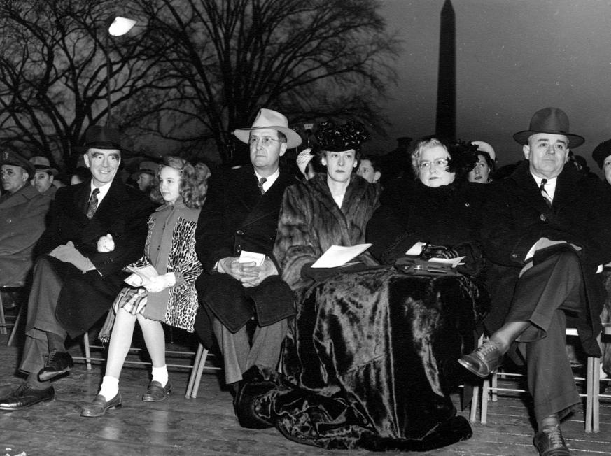 Christmas Tree Lighting Ceremony on the south lawn of the White House. The Washington Monument is in the background. Seated on the front row are Secretary of Commerce Averell Harriman (left) and Secretary of Agriculture Clinton Anderson (third from the left).